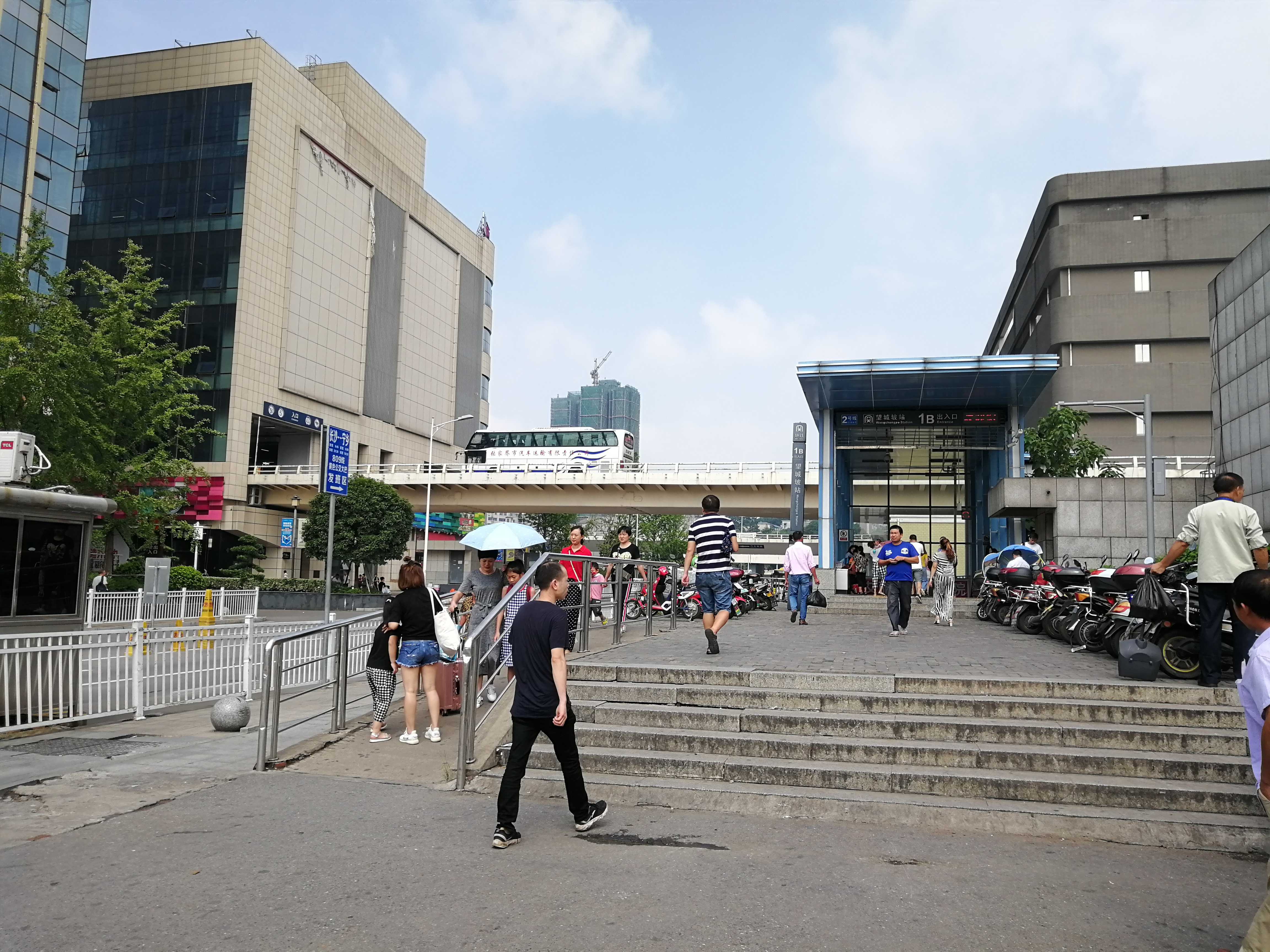 Wangchengpo (Changsha metro)